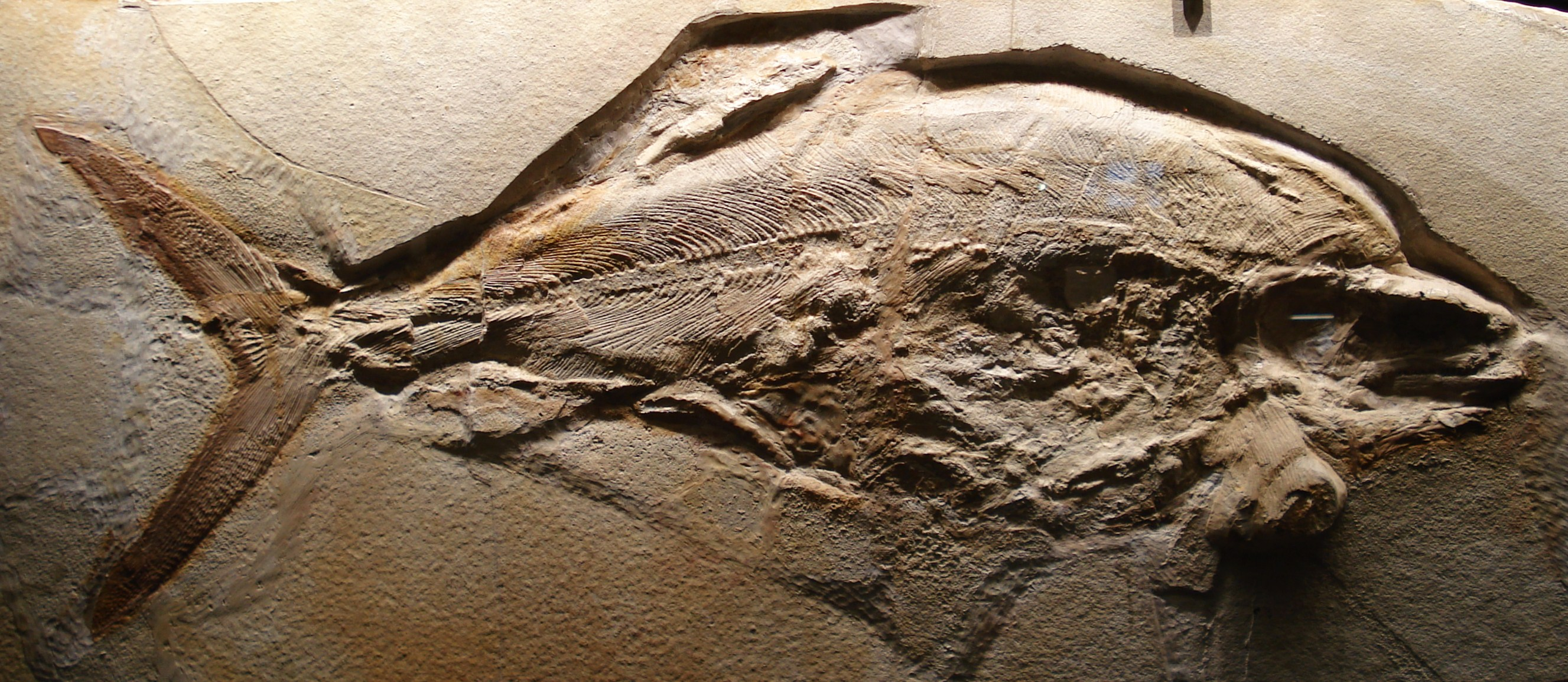 fossil of hypsocormus